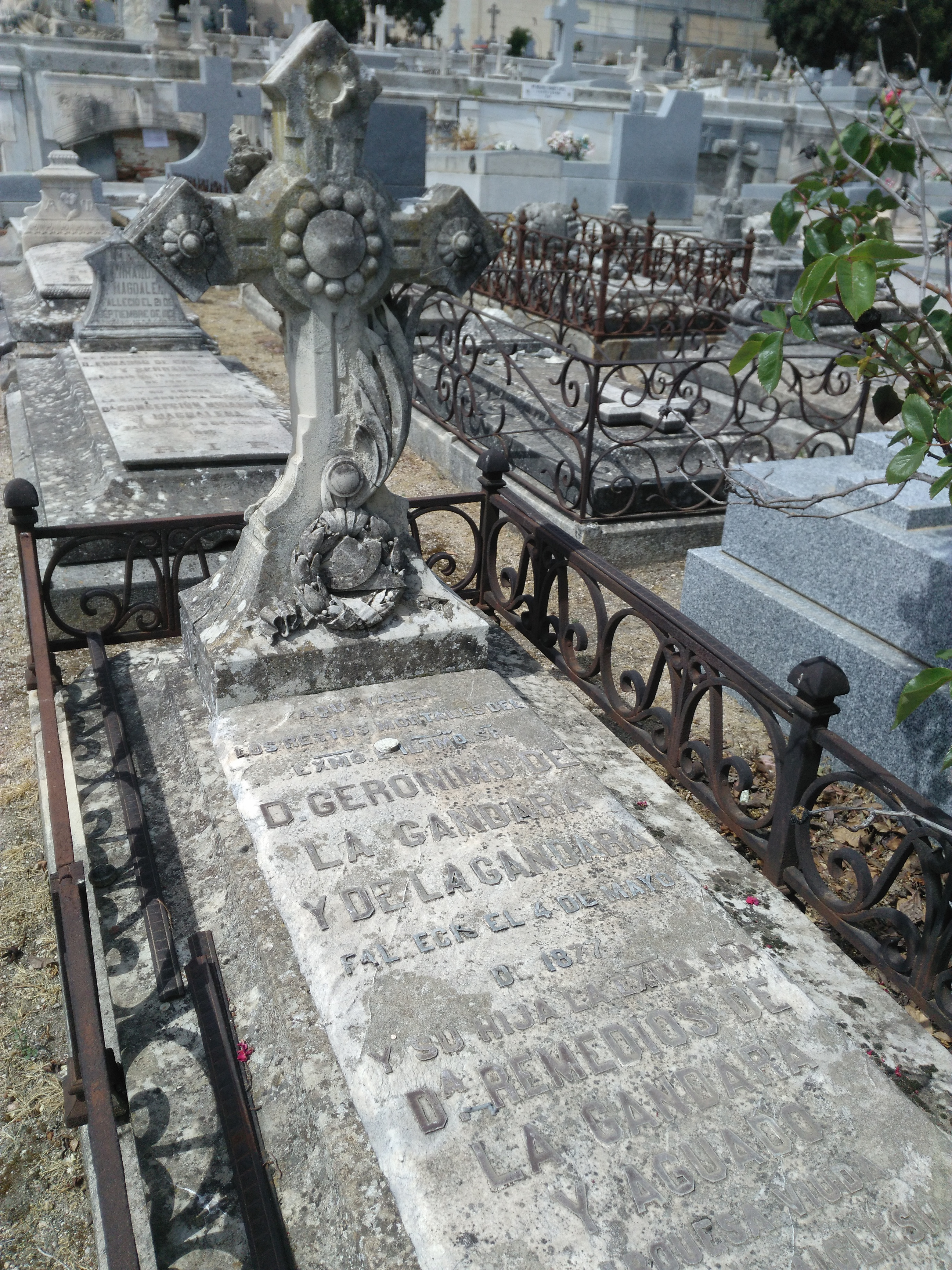 Grave of Gerónimo de la Gándara y de la Gándara, San Isidro cemetery, Madrid.